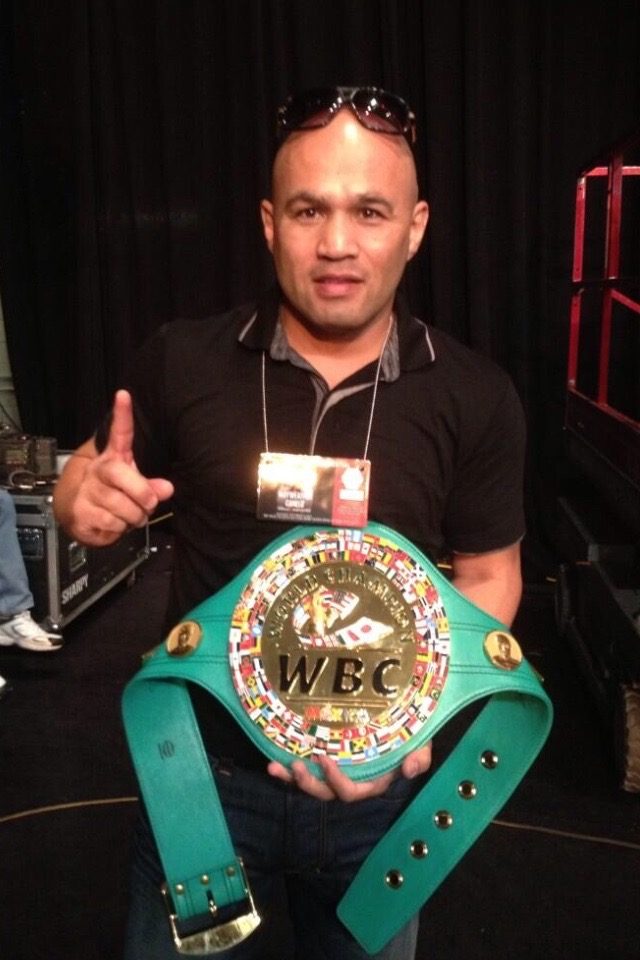 wbc Belt